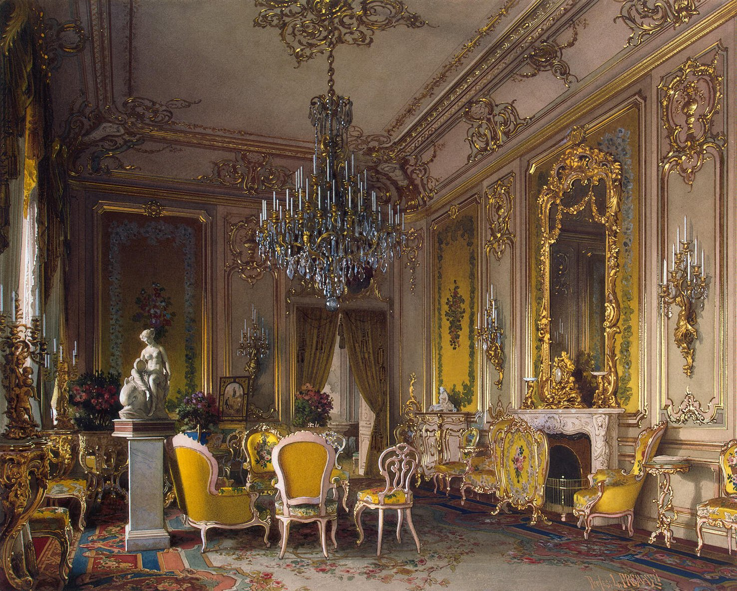 Mansion of Baron A. L. Stieglitz. The Drawing-Room. Watercolour and white, 34.5x43cm. Series Interiors of the Mansion of Baron A. L. Stieglitz, 17 watercolours; 1869-1872. State Hermitage; source of entry: Library of the Stieglitz Museum, 1920